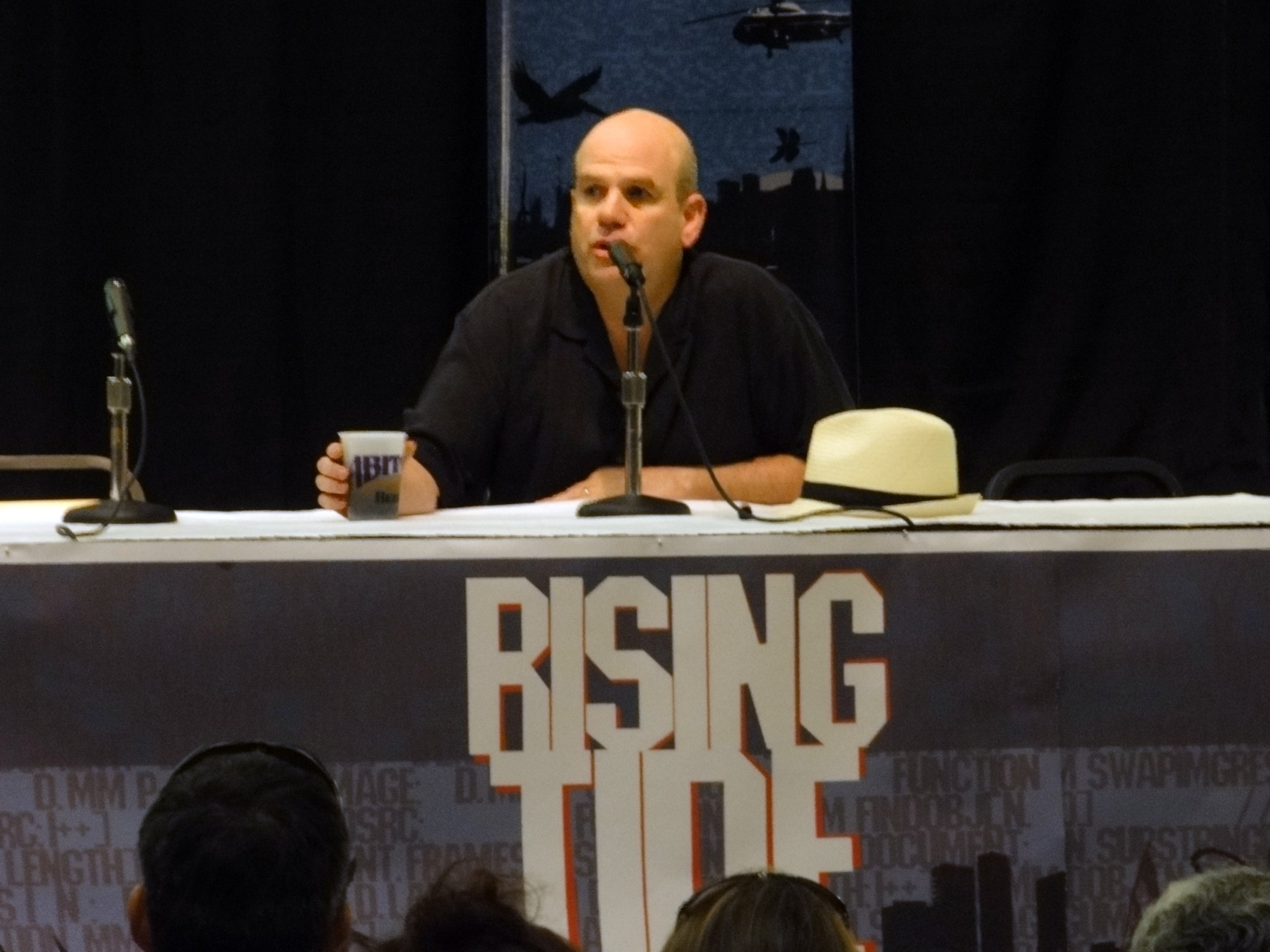 "Treme" tv producer David Simon, at the Rising Tide conference, Xavier University, New Orleans.